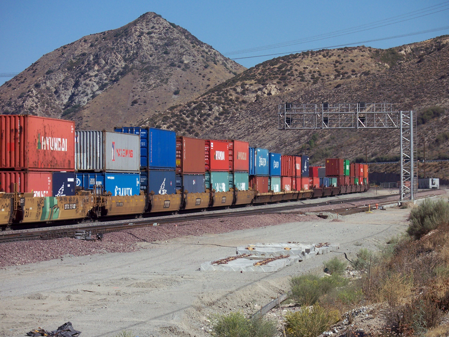 One of the many BNSF Intermodal Trains passing through the reconstructed area of the Cajon Pass in California.